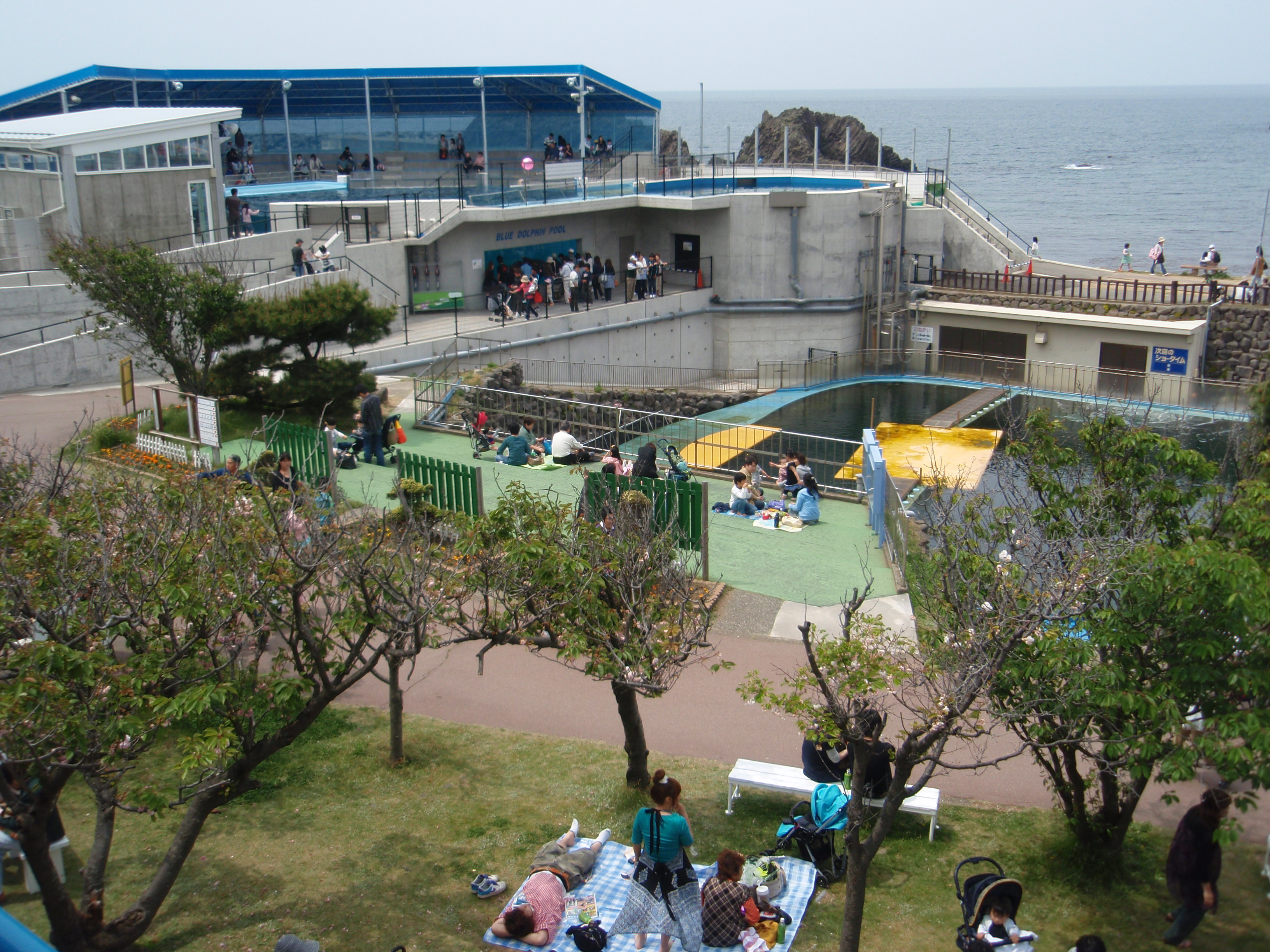 Echizen Matsushima Aquarium, Sakai City, Fukui Prefecture, Japan